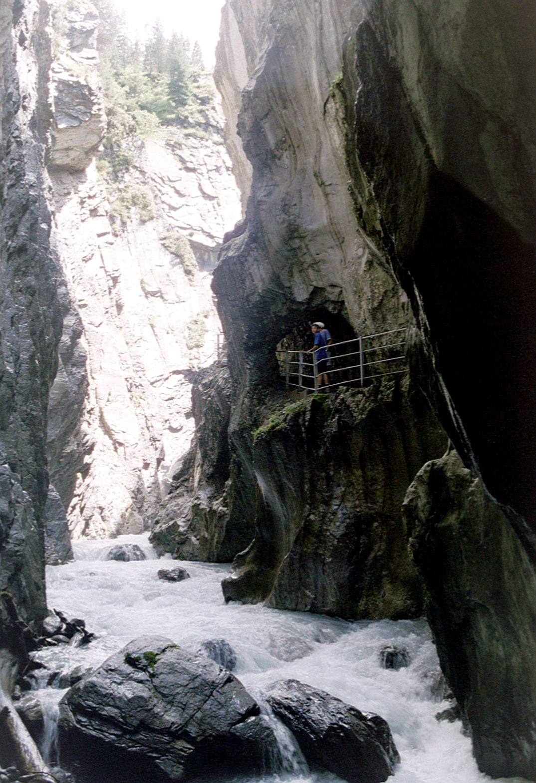 Rosenlauischlucht, Switzerland